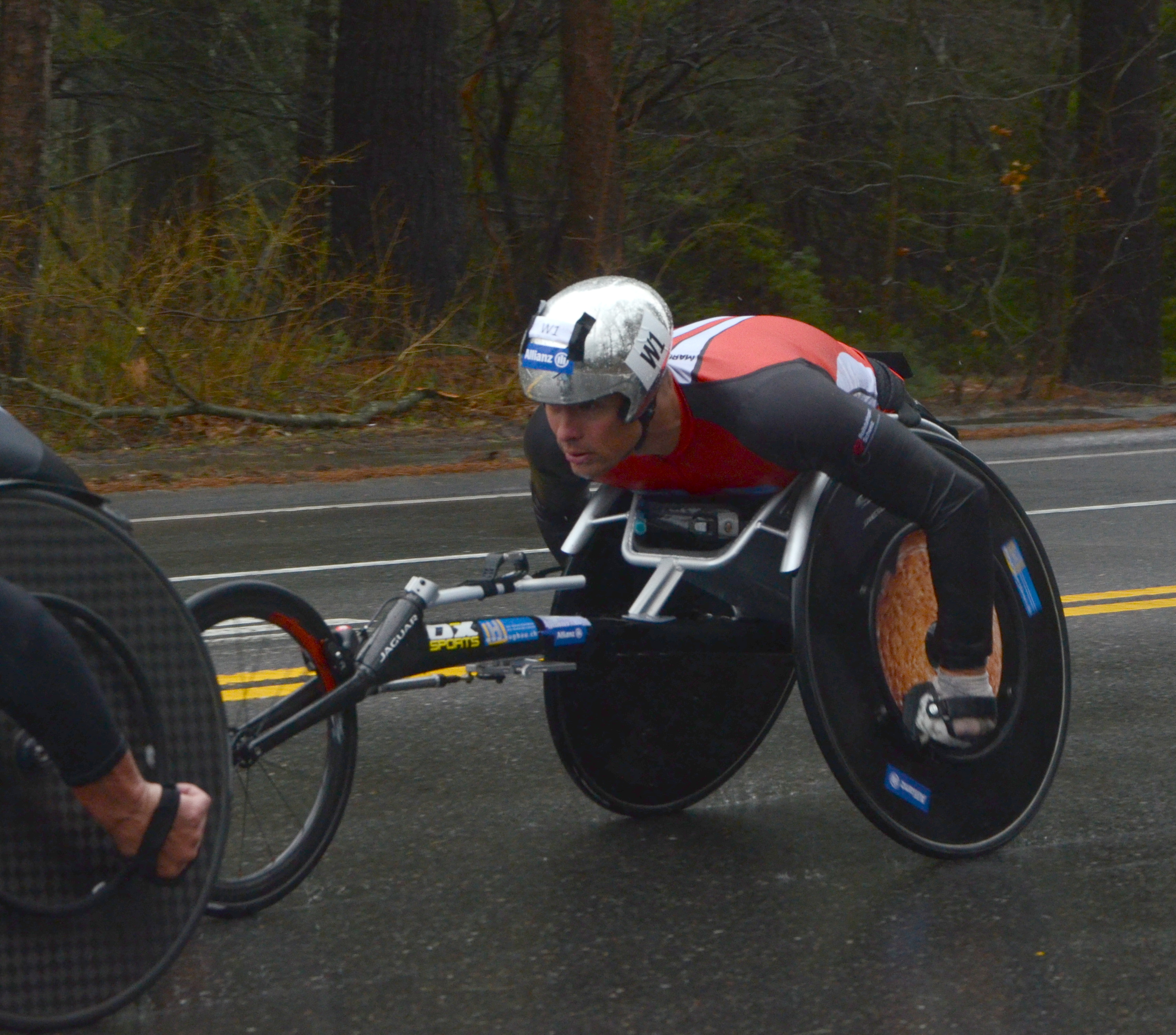 Marcel Hug near halfway point of Boston Marathon 2018 in which he got first place.